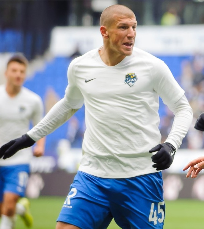 Ivan Miladinović with PFC Sochi in a game against FC Dynamo Moscow.